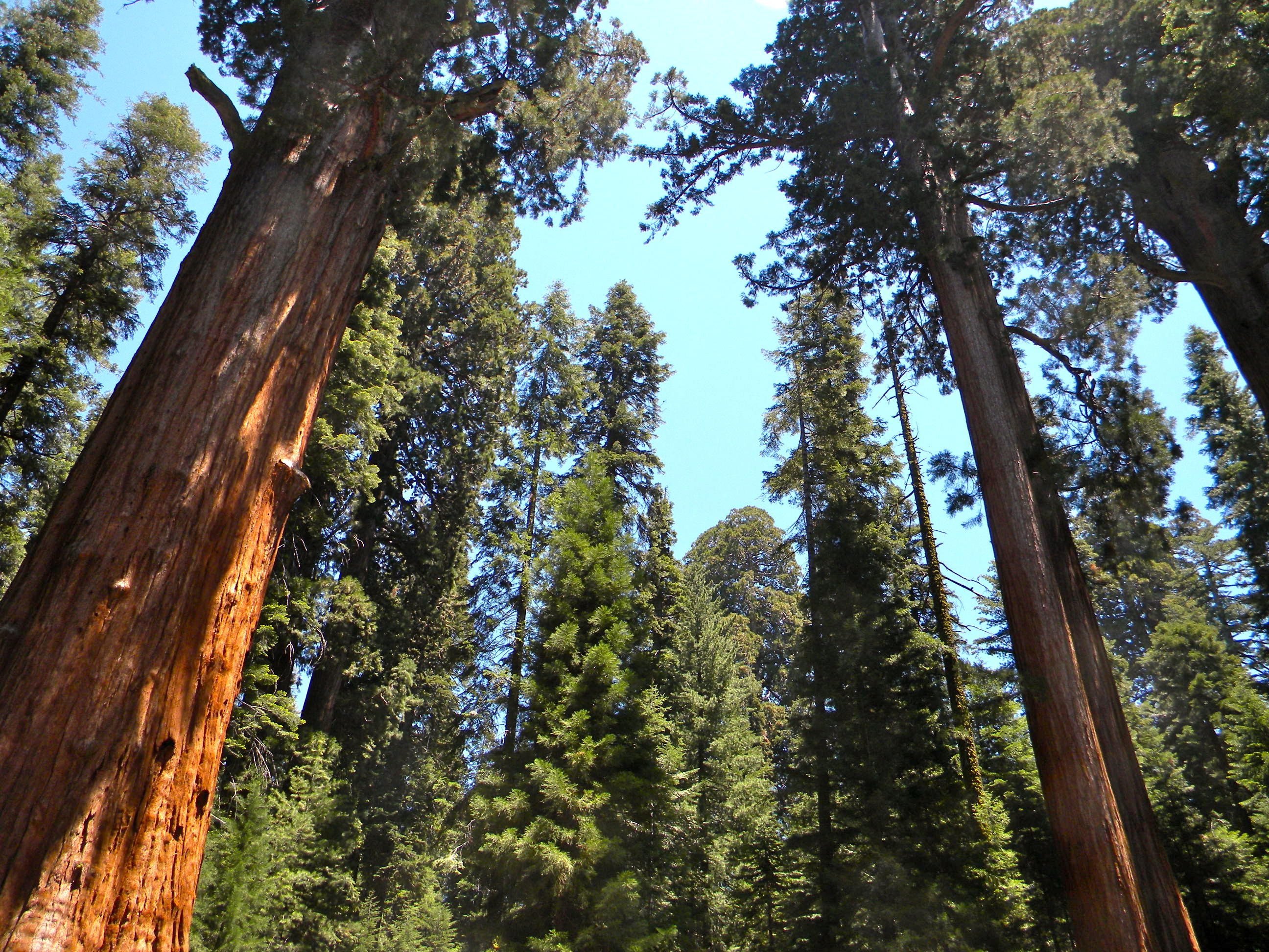 Giant sequoias in Sequoia National Park